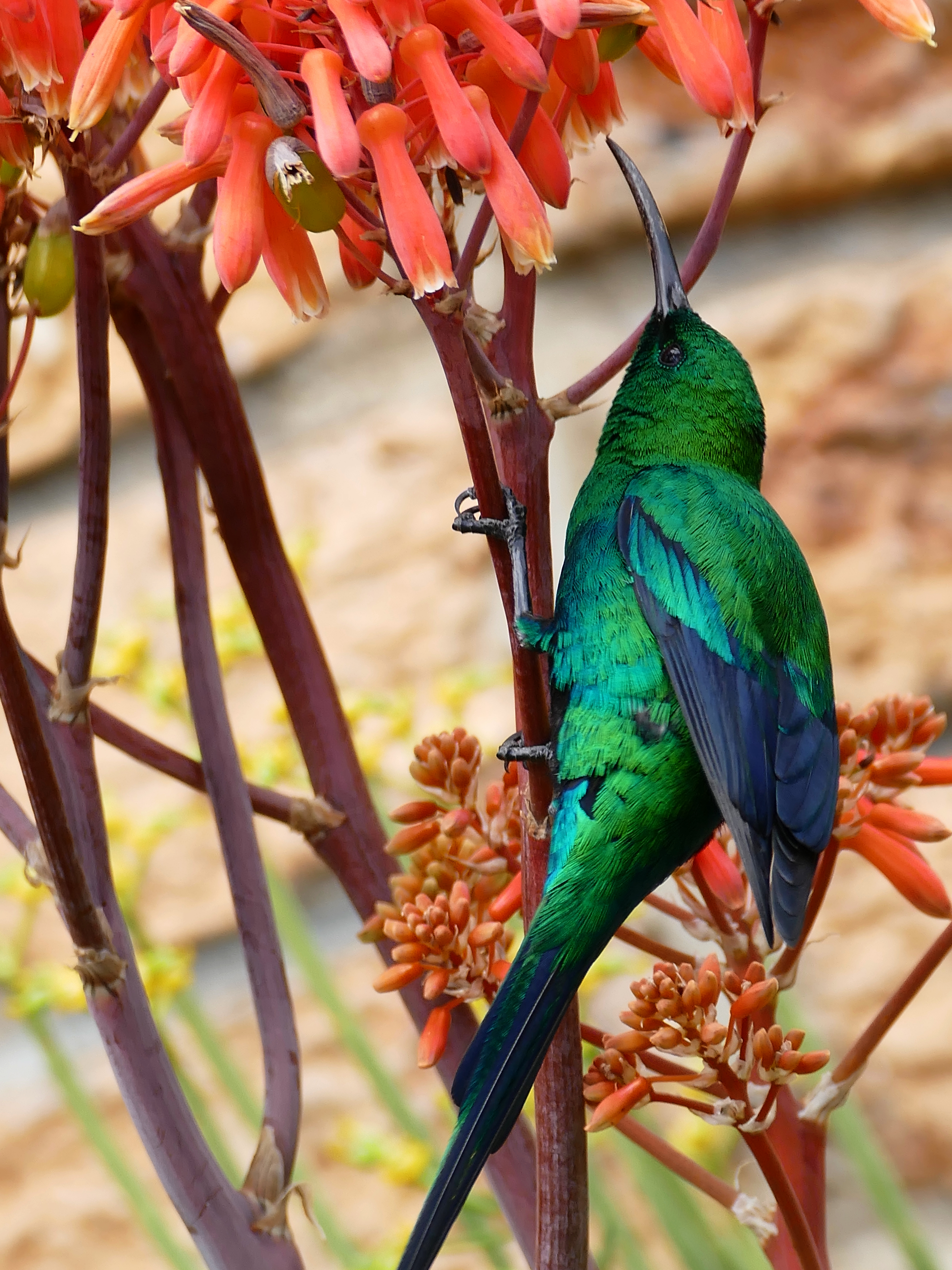 Rest Camp, Mountain Zebra NP, Eastern Cape, SOUTH AFRICA